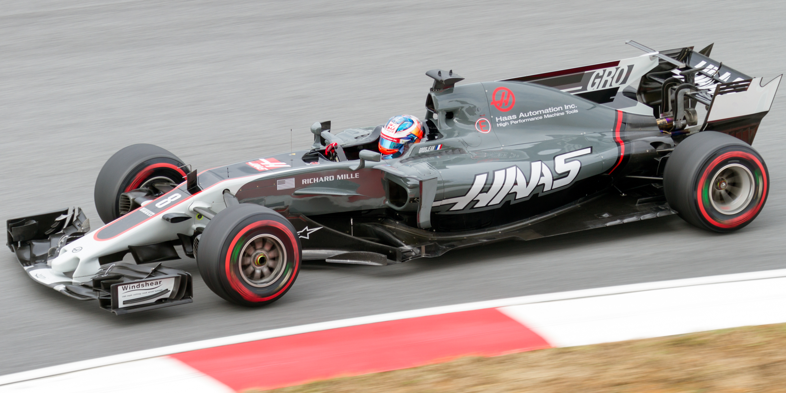 Formula One 2017 Rd.15 Malaysian GP: Romain Grosjean (Haas F1 Team)